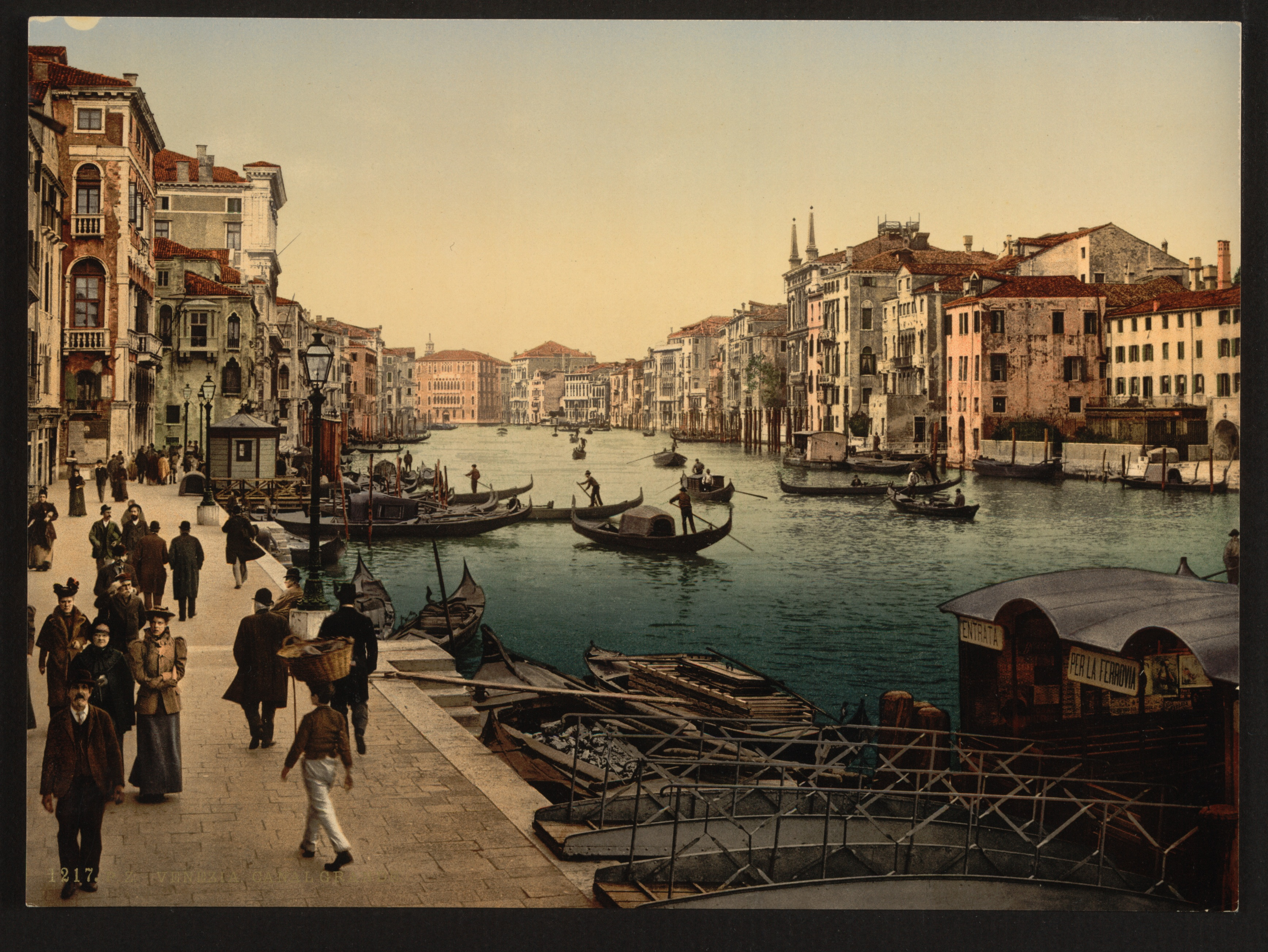 Print no. "1217".; Forms part of: Views of architecture and other sites in Italy in the Photochrom print collection.; Title from the Detroit Publishing Co., Catalogue J-foreign section, Detroit, Mich. : Detroit Publishing Company, 1905.; More information about the Photochrom Print Collection is available at